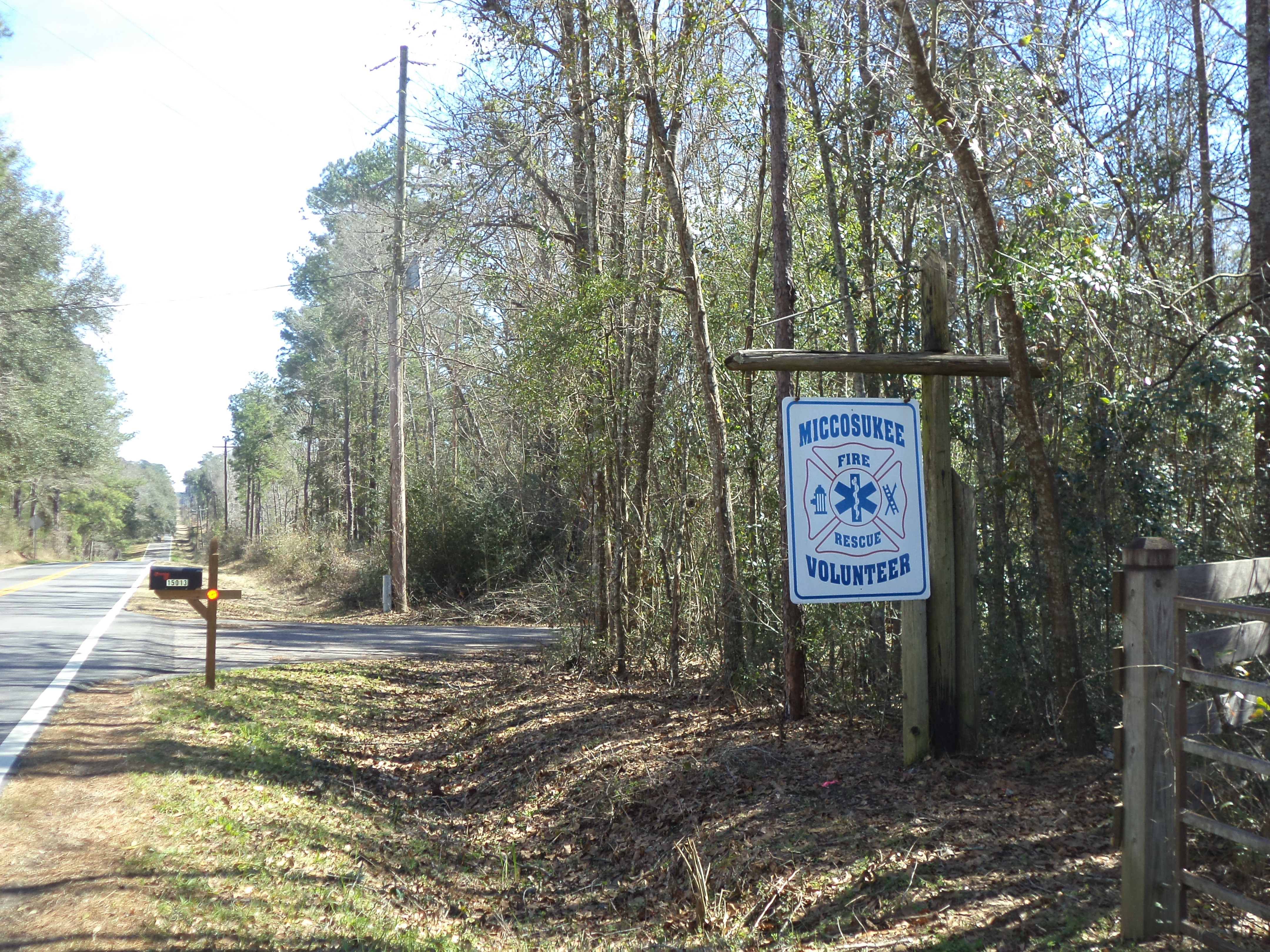 Miccosukee Volunteer Fire Station road sign, Cromartie Rd., Miccosukee, Leon County, Florida